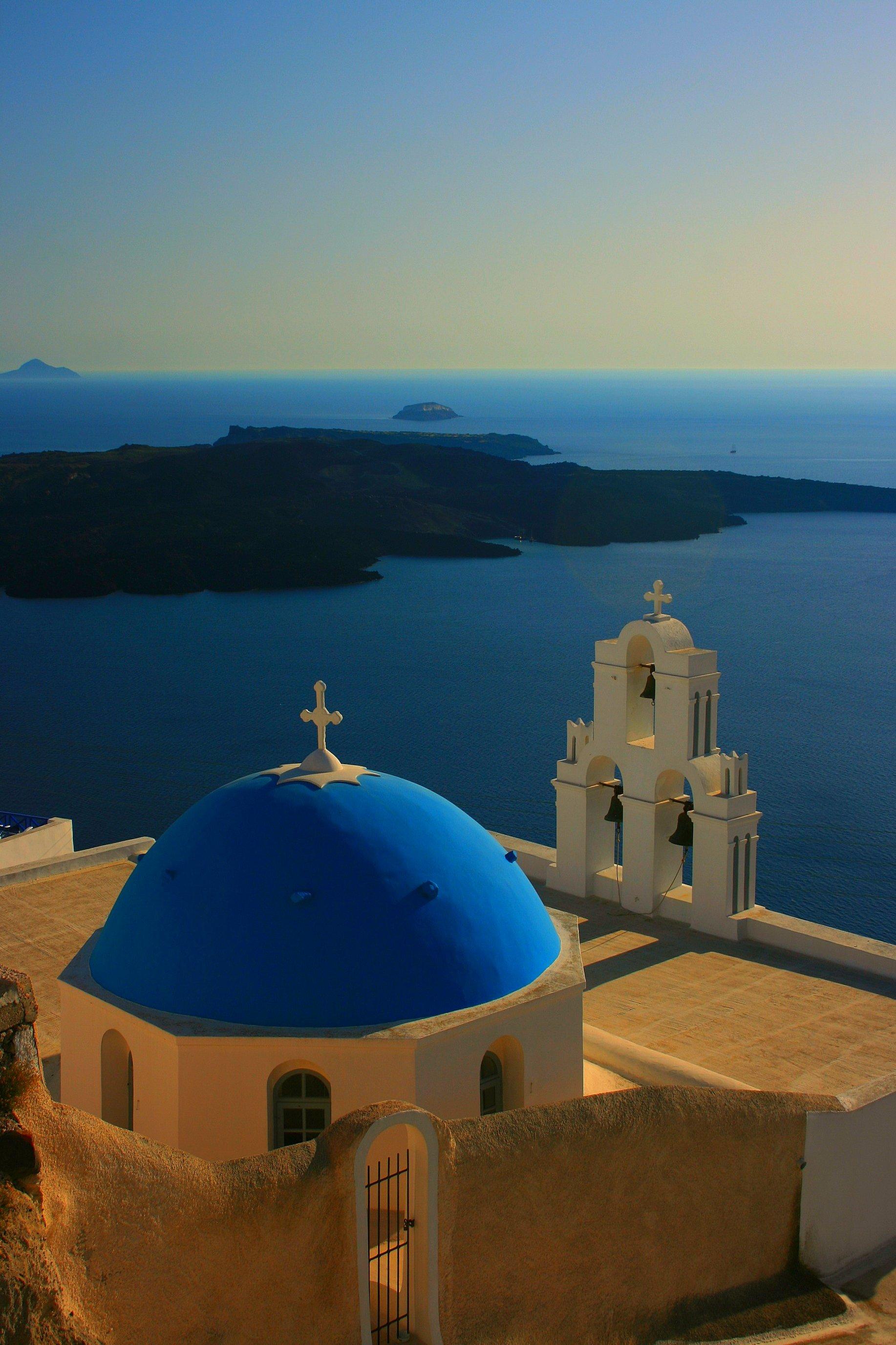 Agios Theodori church at Firostefani, Santorini, Greece.